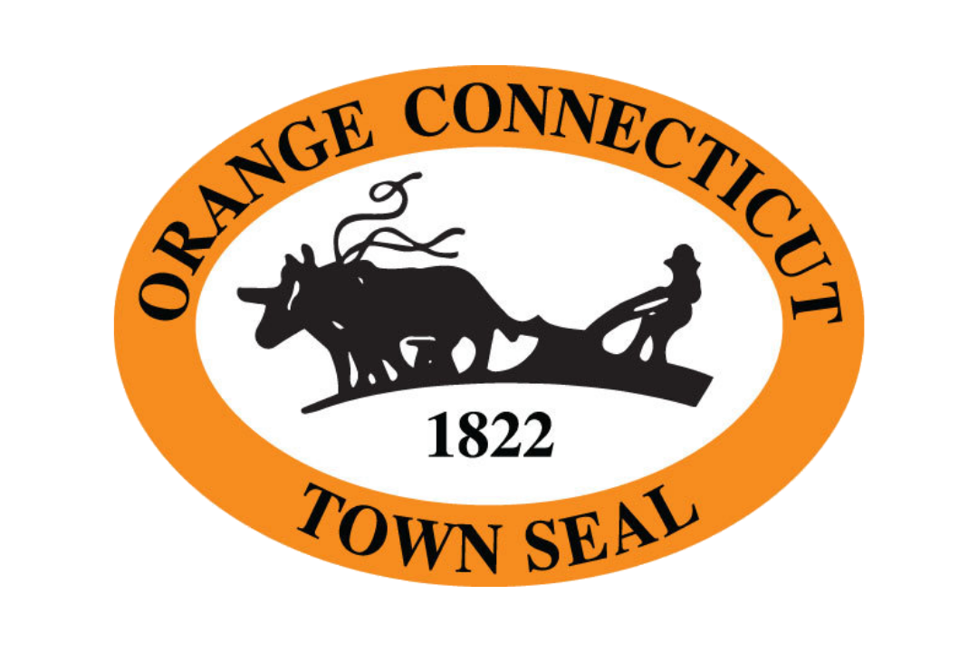 This is the official flag of Orange, CT. This image is clearer than other versions of the flag that can be found on the web.